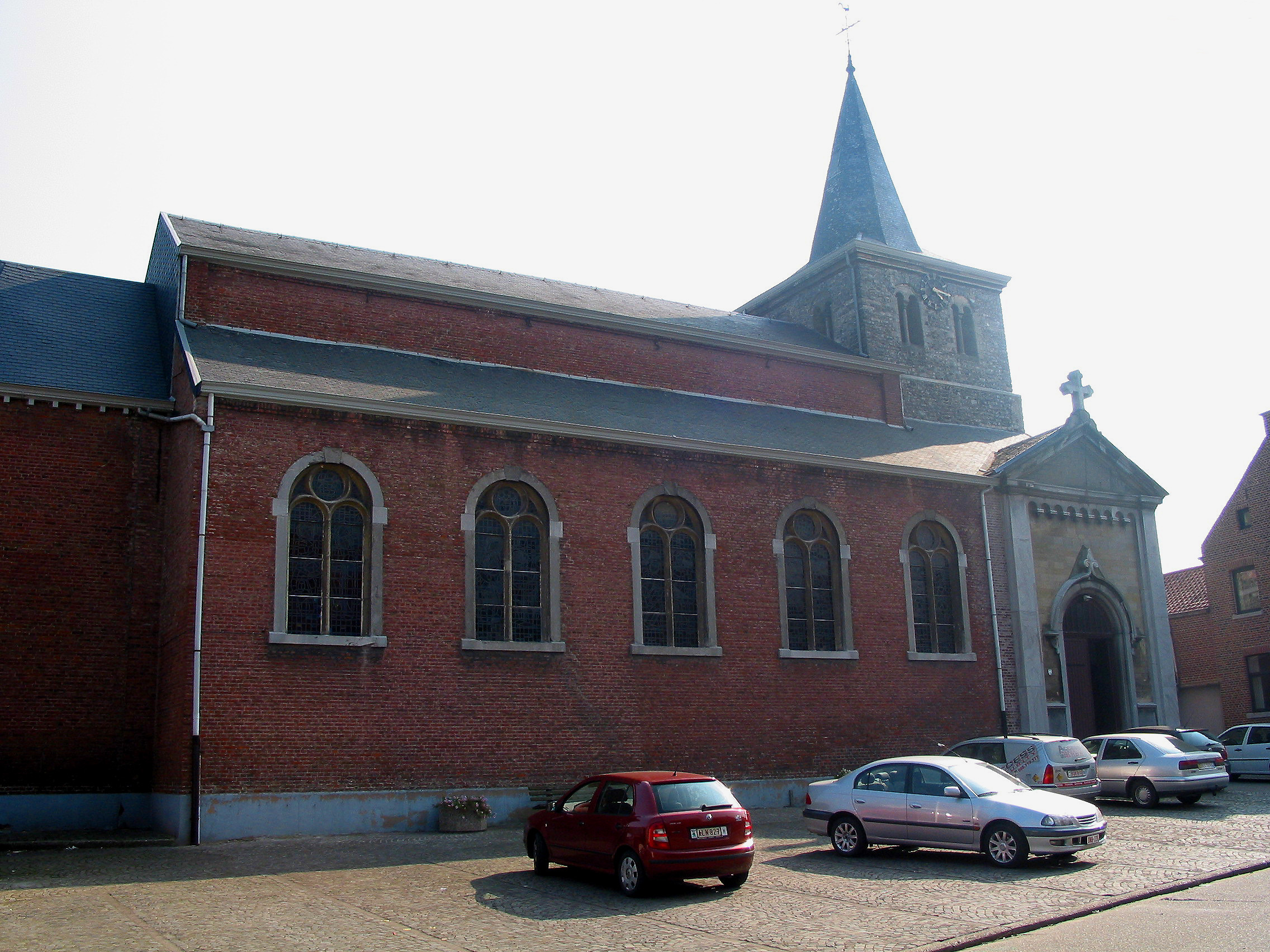 Oreye (Belgium), the church of Saint Clement.